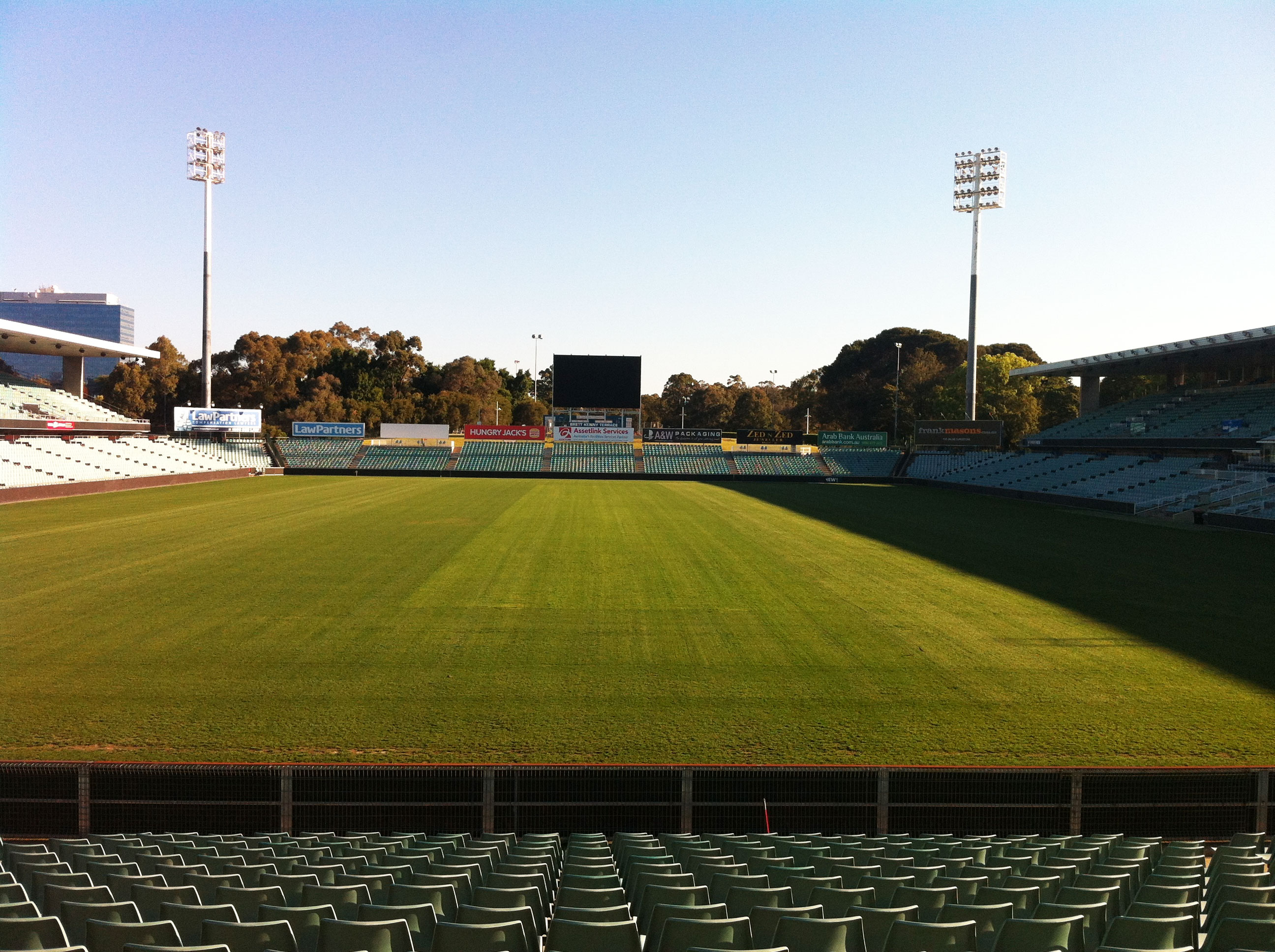 New Parramatta Stadium scoreboard as pictured from the Northern Terrace also known as the "Red And Black Bloc" in A-League matches.